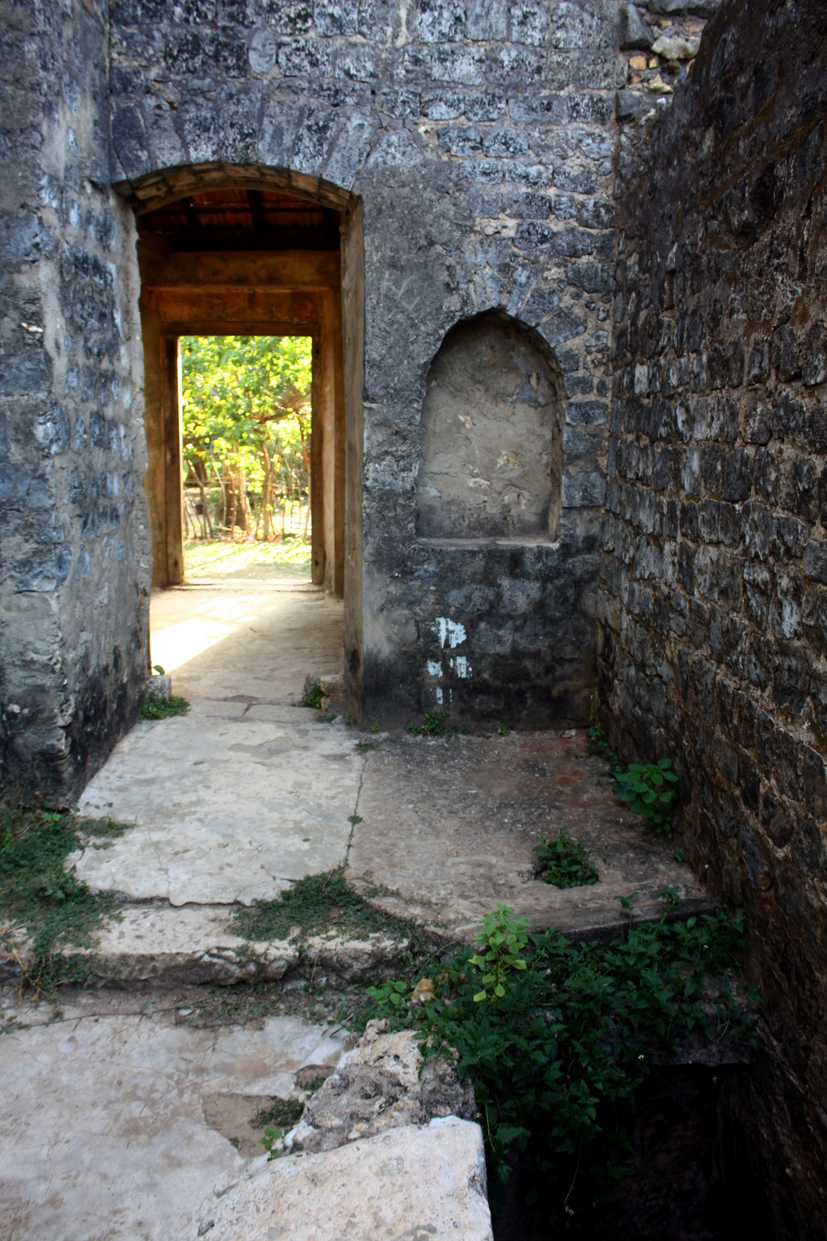 Inside of Mantri Manai with well and rear entrance